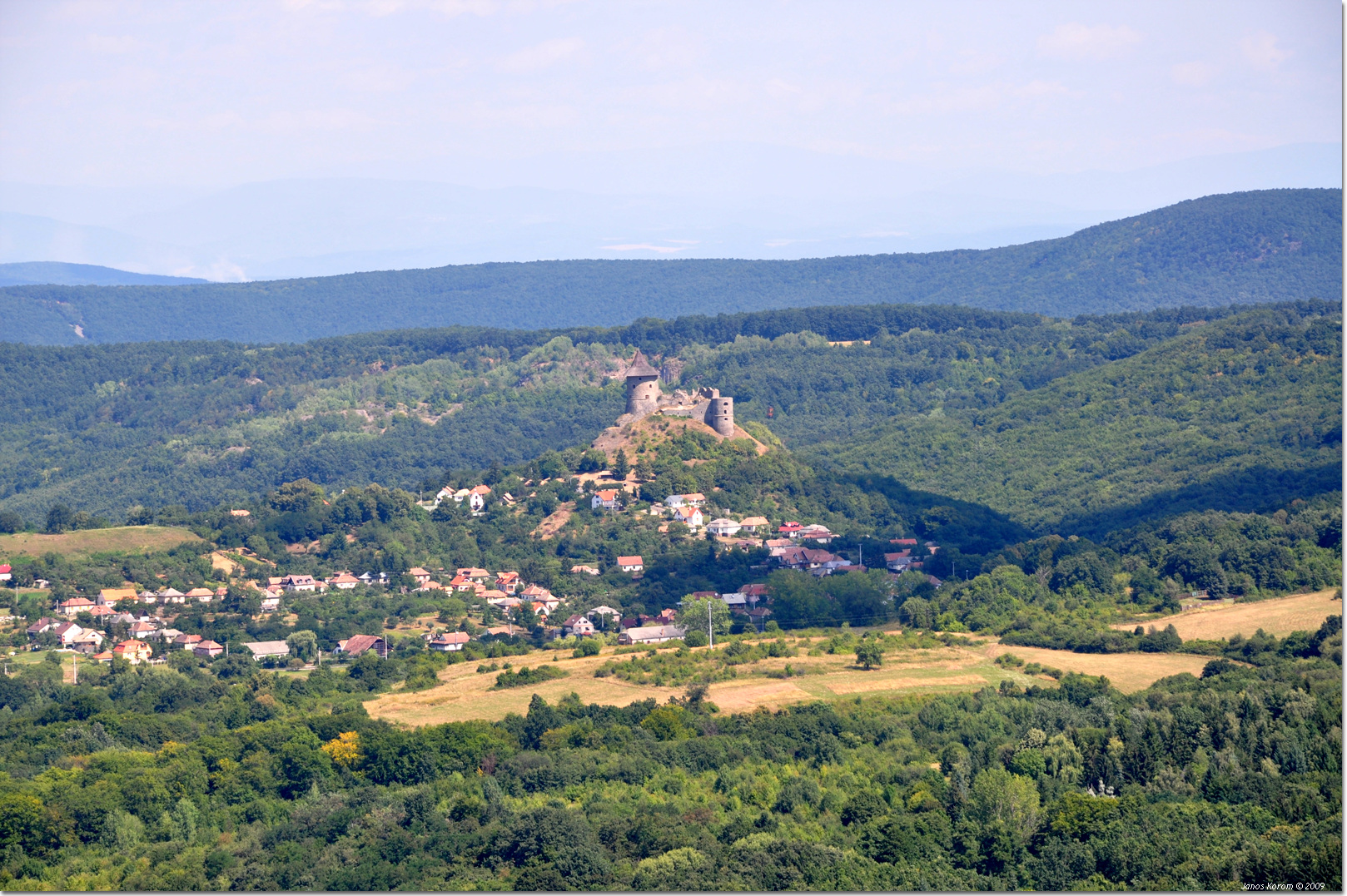 The village Somoskő and its castle